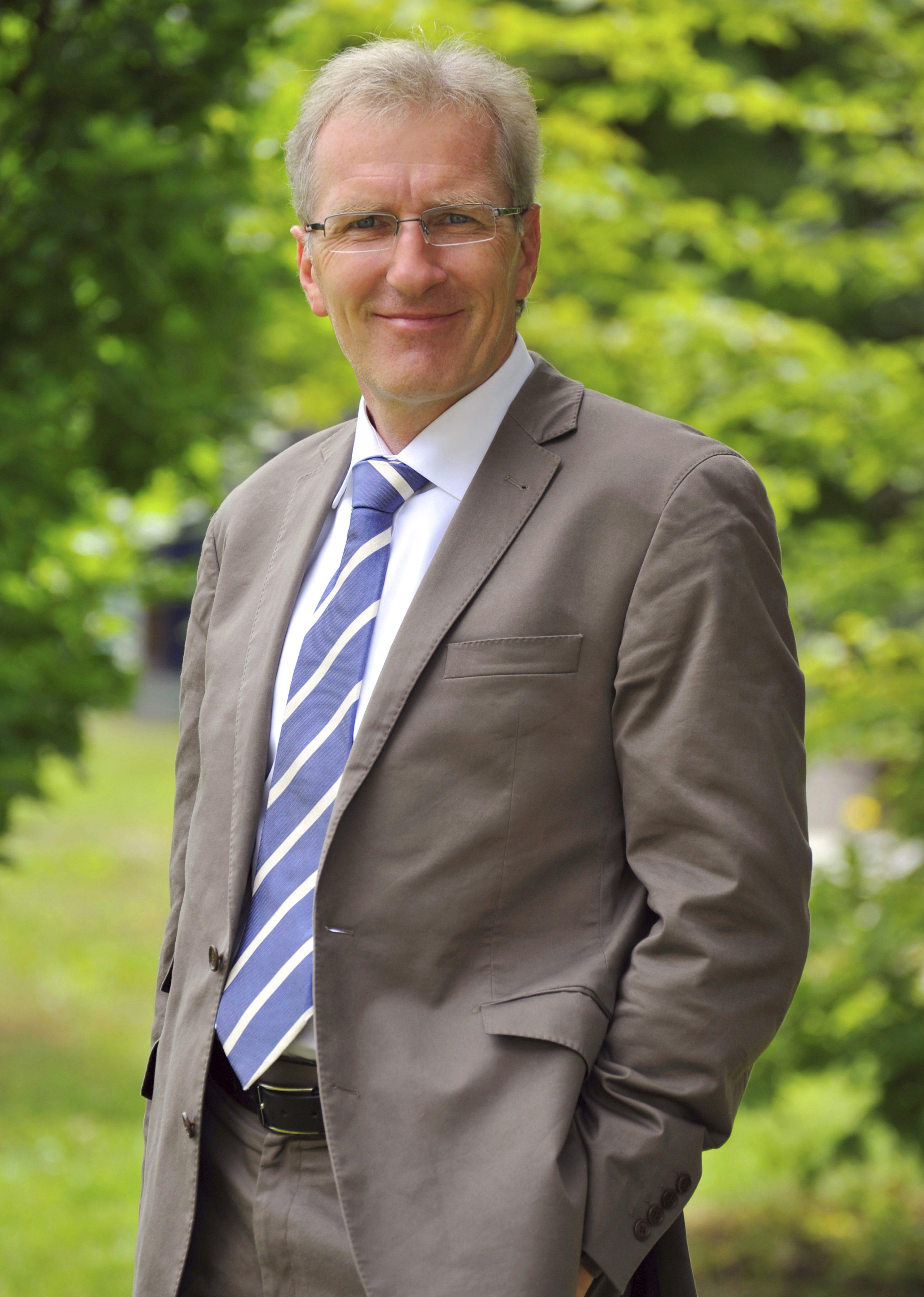 Gerold Wucherpfennig